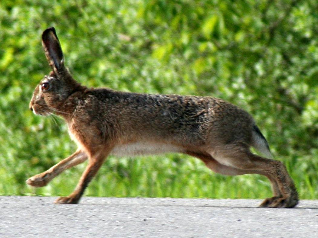 A European Hare (Lepus europaeus), photographed in Weinsberg